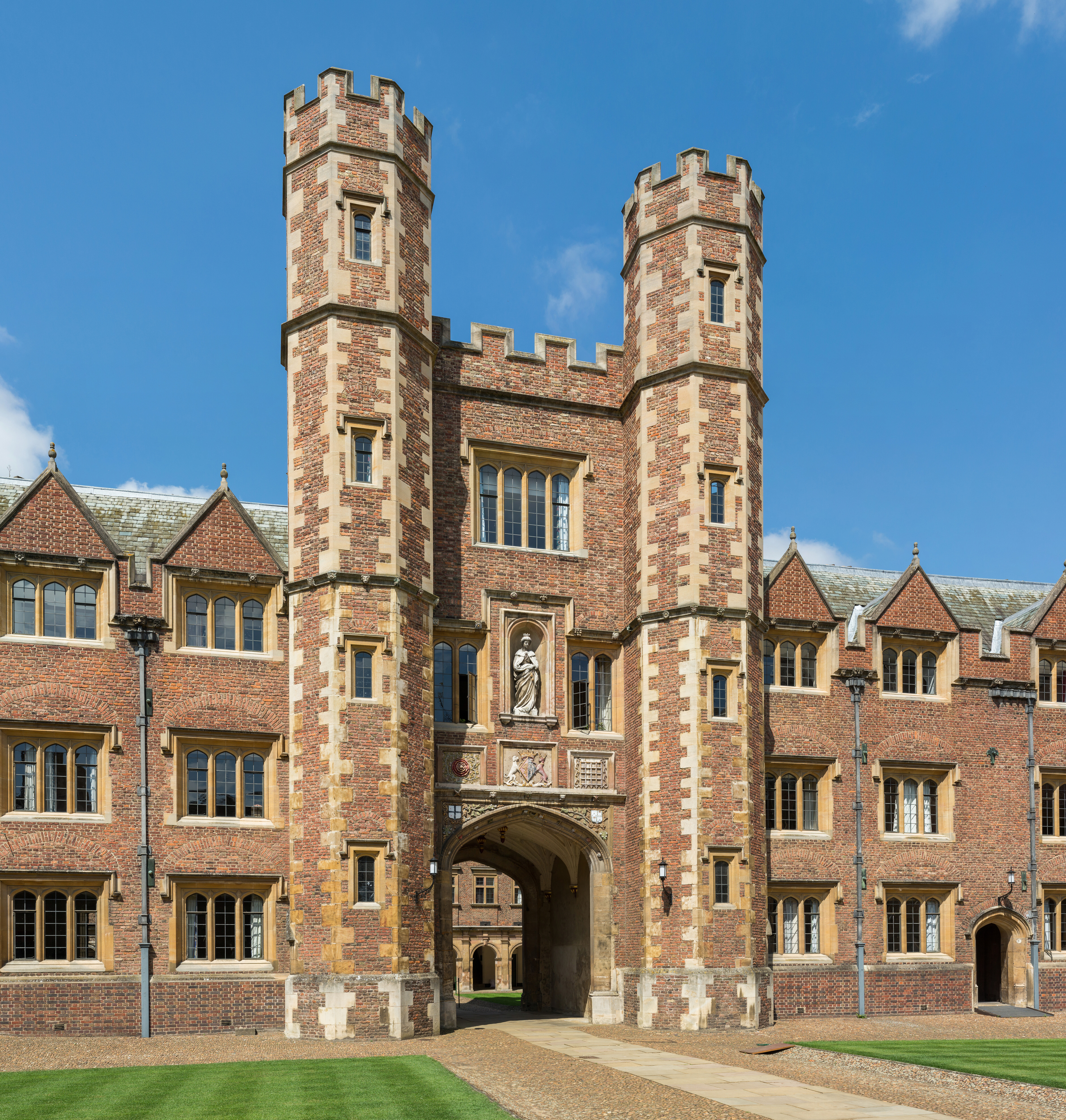 The tower of the Second Court, leading towards the Third Court of St John's College, Cambridge, England. Statue of Mary Talbot, Countess of Shrewsbury (1556–1632) the wife of Gilbert Talbot, 7th Earl of Shrewsbury. A white marble copy of this statue depicts Lady Rachel Fane (Countess of Bath) in Tawstock Church, Devon.